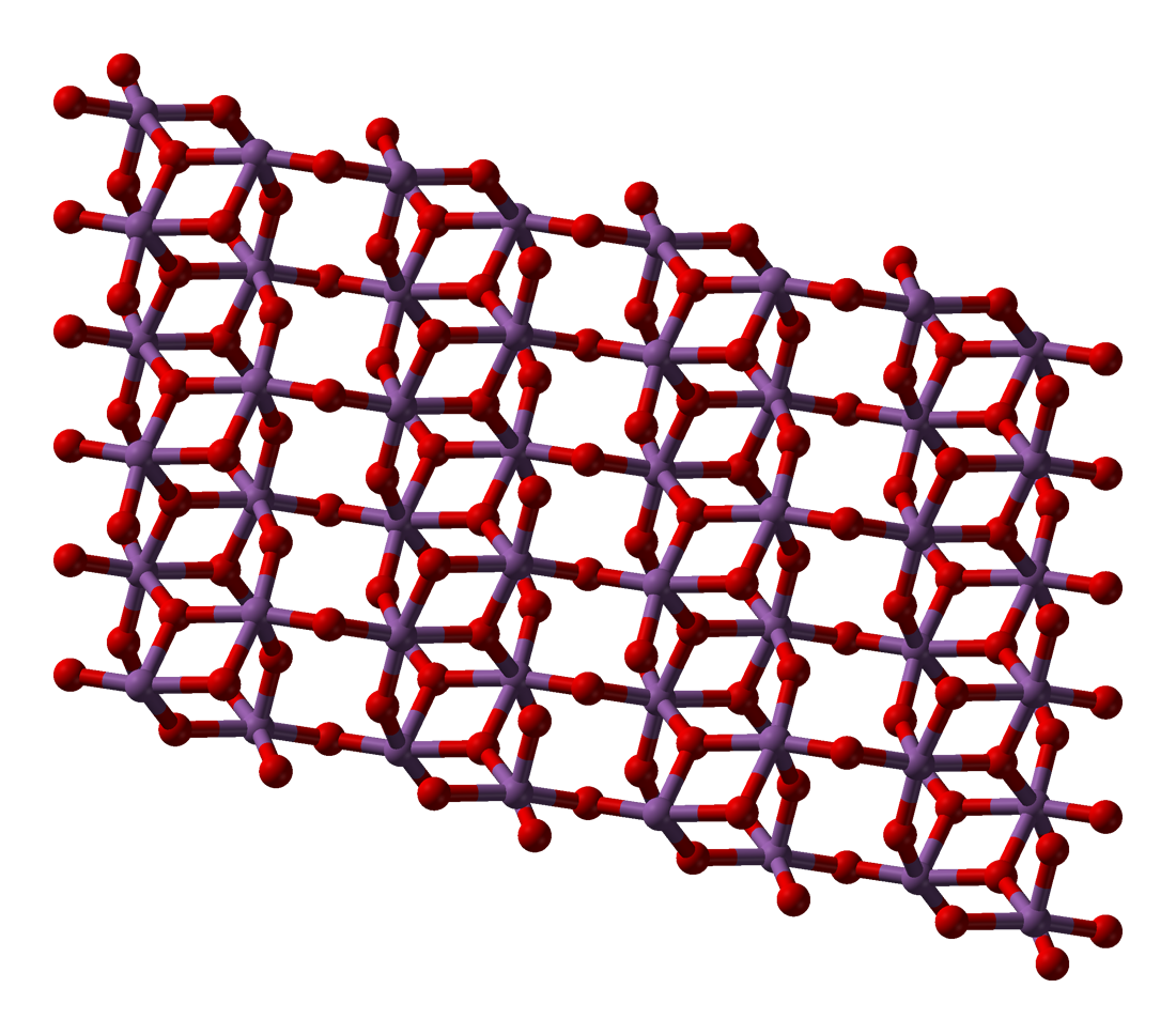 Ball-and-stick model of part of the crystal structure of antimony pentoxide, Sb2O5. X-ray crystallographic data from Acta Cryst. (1979). B35, 539-542. Model constructed in CrystalMaker 8.1. Image generated in Accelrys DS Visualizer.